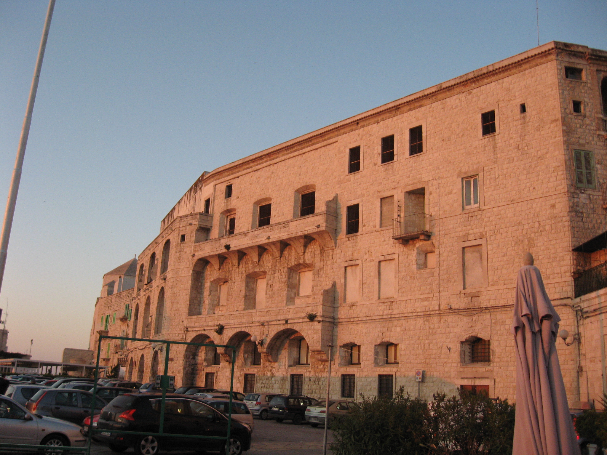 The walls of the old city of Molfetta incorporated into houses